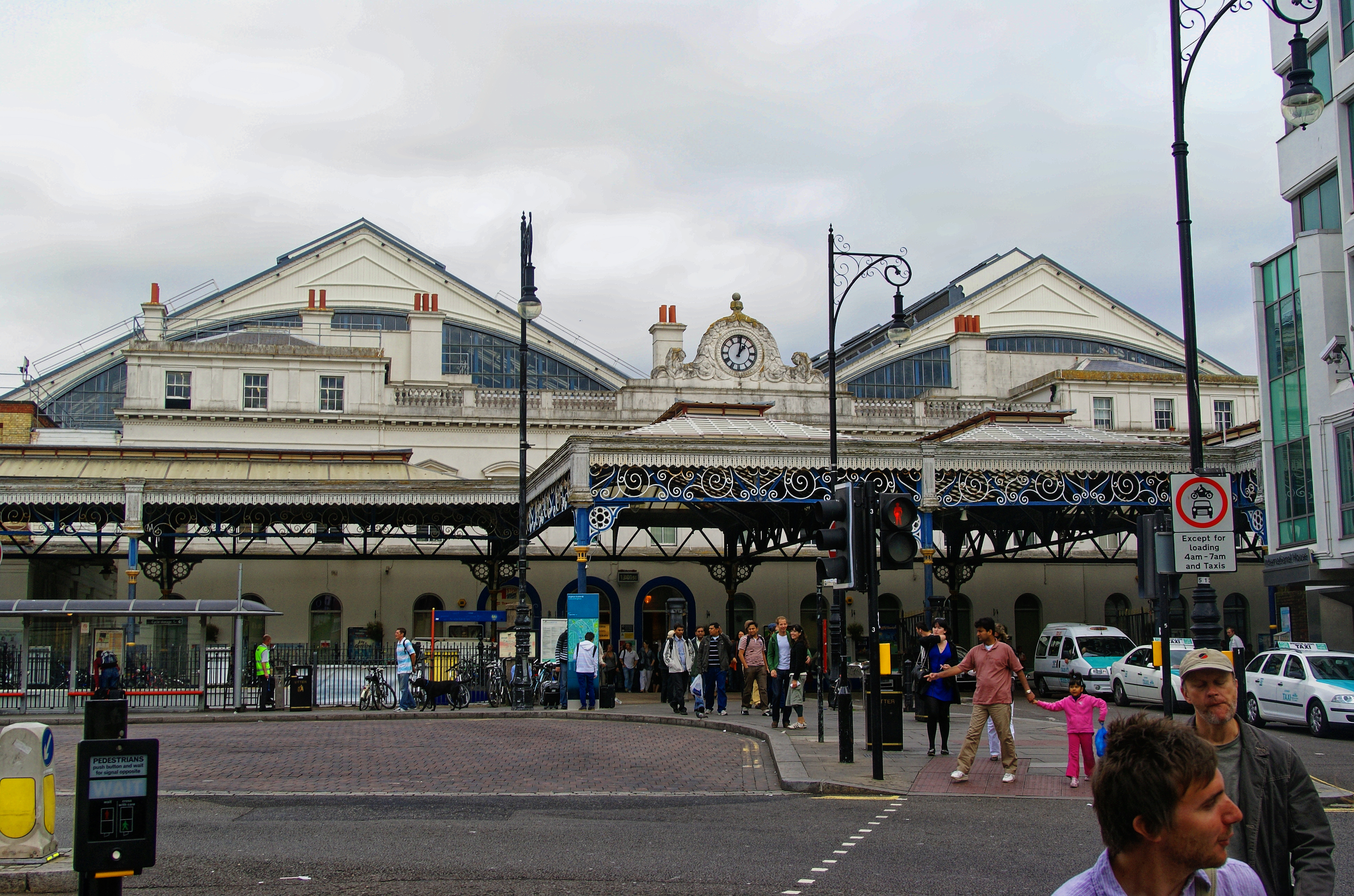 Brighton - Queen's Road - View North on Brighton Rail